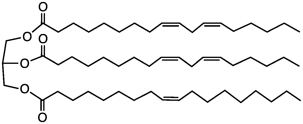 representative triglyceride found in sunflower oil